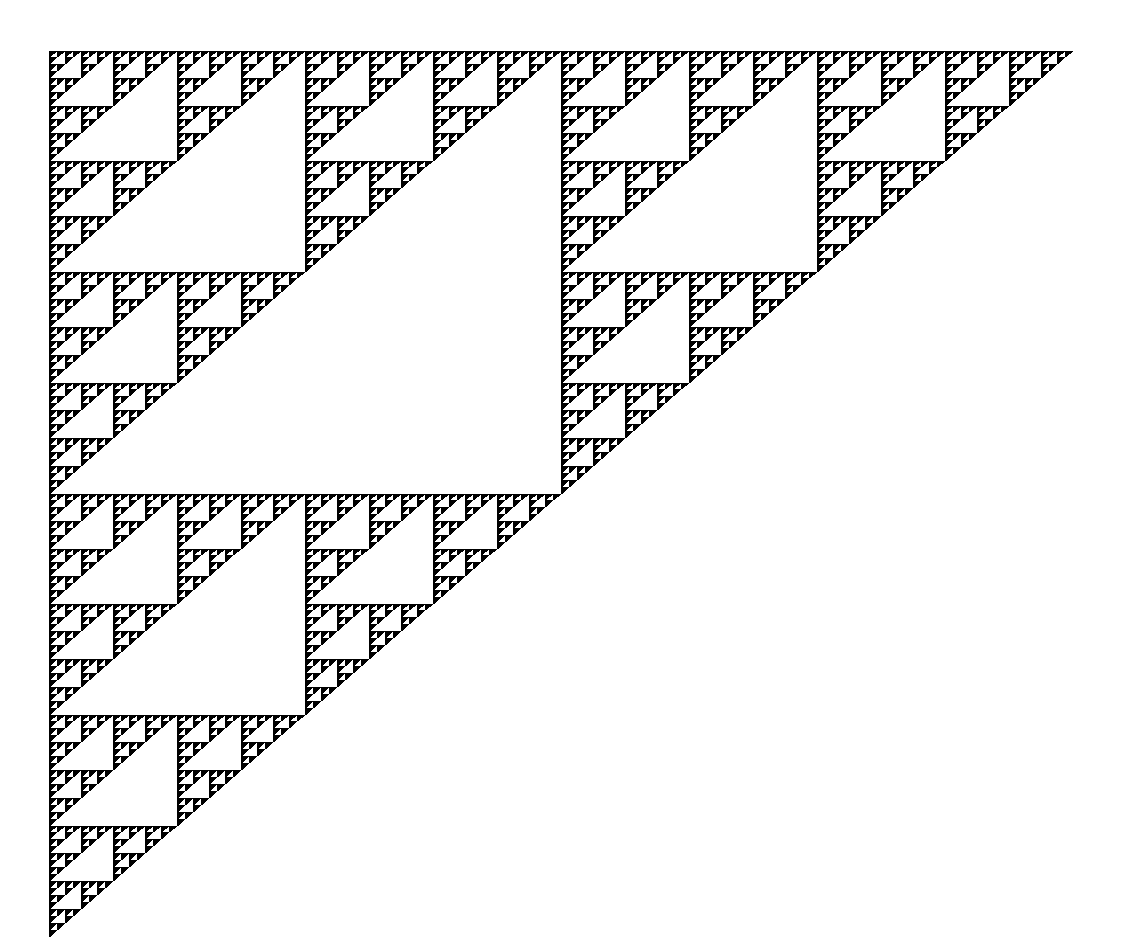 Sierpinski Triangle drawn by a recursive Java method written by myself. — Nol Aders 00:55, 20 November 2005 (UTC)